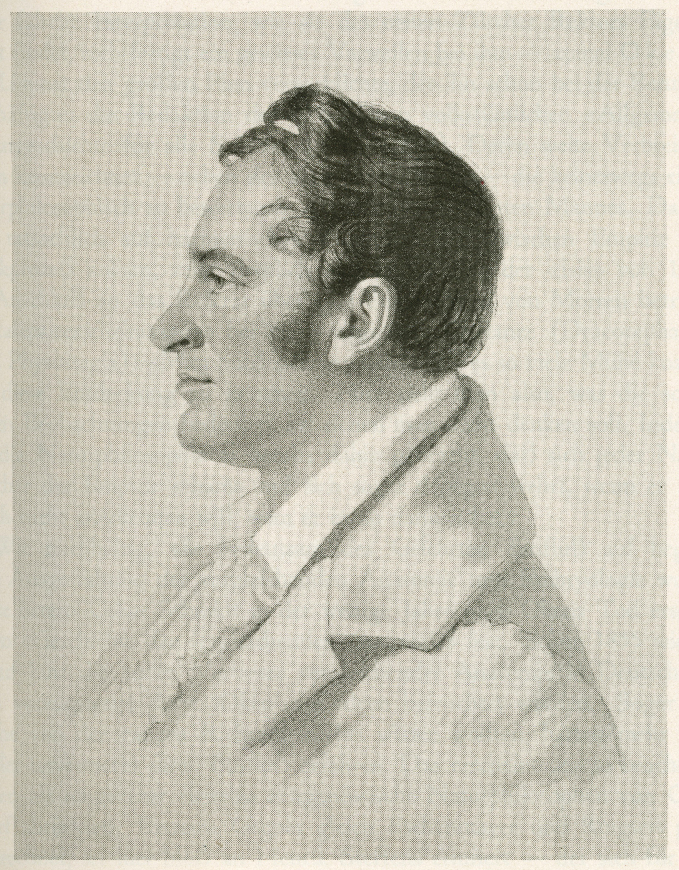 Portrait of Johann Lucas Schönlein (1793–1864)